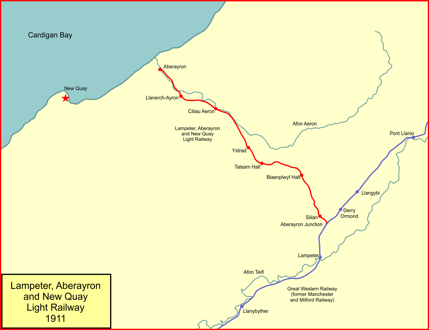 System map of the Lampeter, Aberayron and New Quay Light Railway, Wales, in 1911